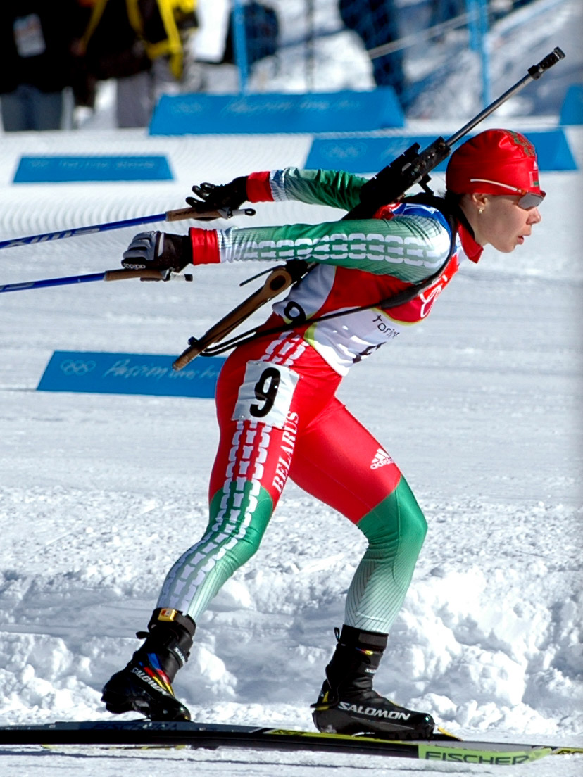 Olena Zubrilova at the 2006 Winter Olympics in Torino.